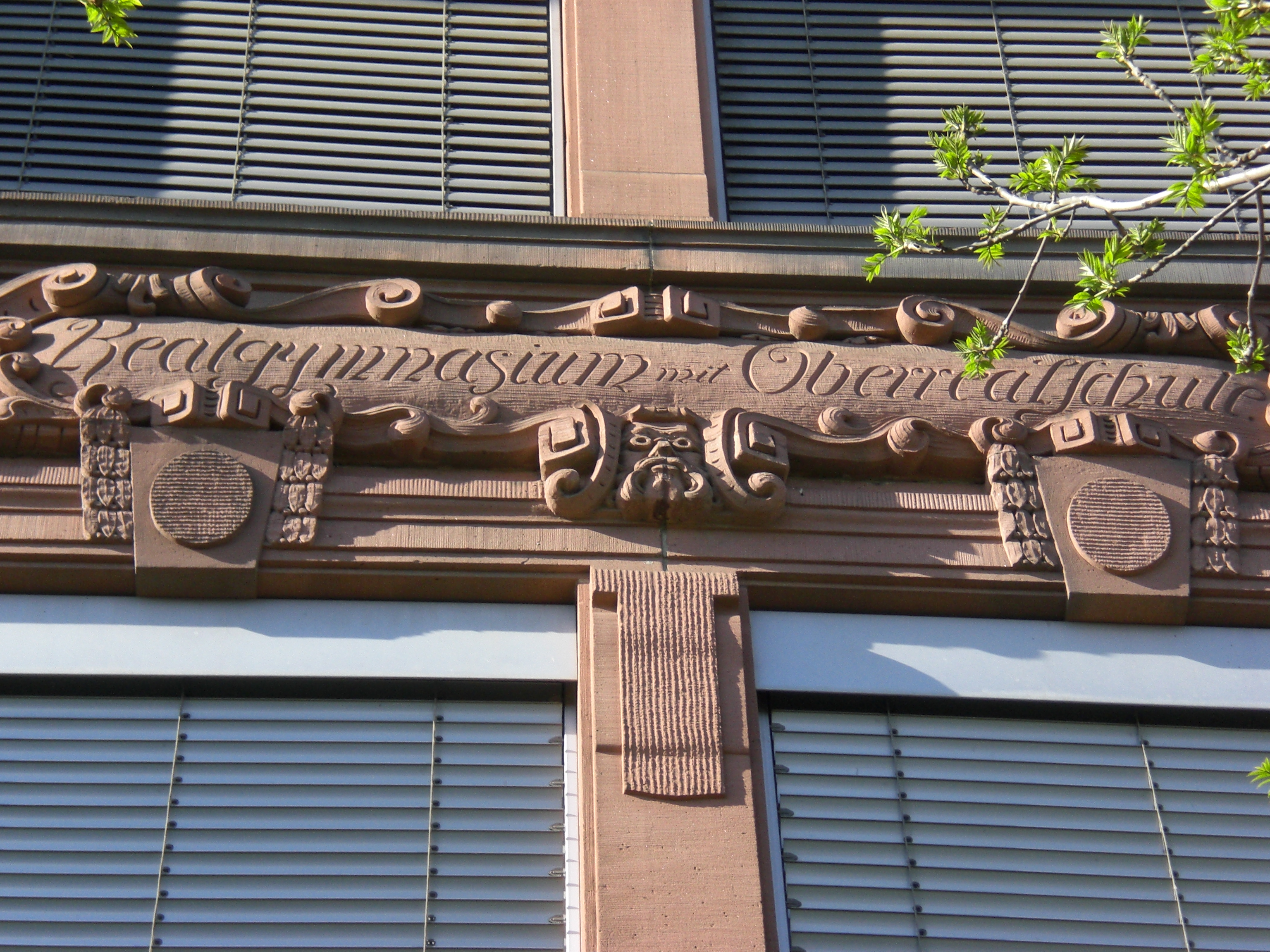 The school's former name.